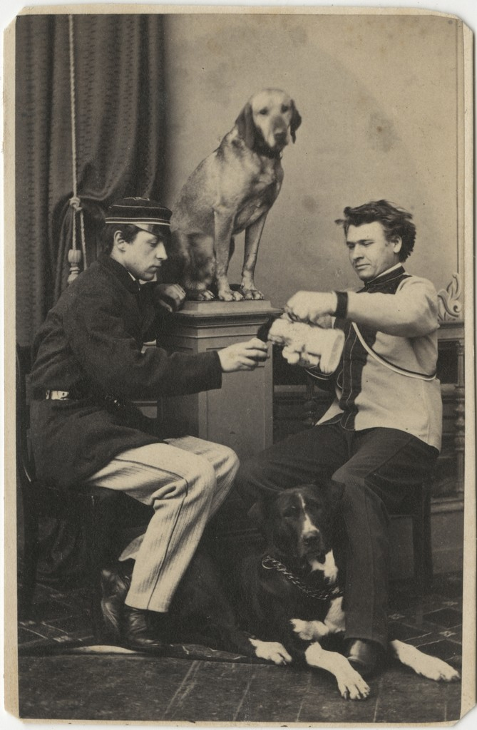 Alexander von Weiss ja Richard von Kügelgen with Dogs